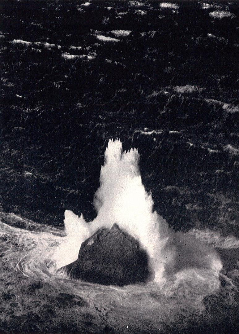 Winter wave breaking over the island of Rockall. The wave's height over the steep West side may be estimated at 170 feet. Photographed from an RAF Coastal Command aircraft from RAF Aldergrove during World War II.